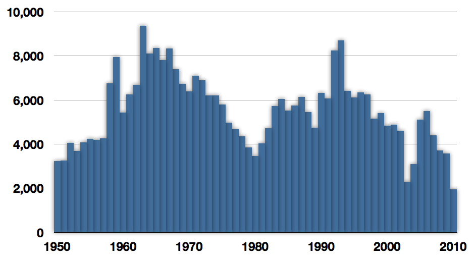 Global capture of wild northern red snapper, Lutjanus campechanus, in tonnes, 1950–2010, as reported by the FAO. Based on data sourced from the FishStat database